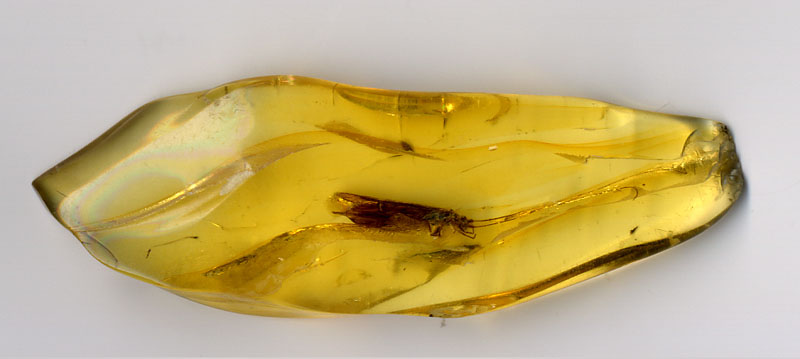 An insect trapped in amber